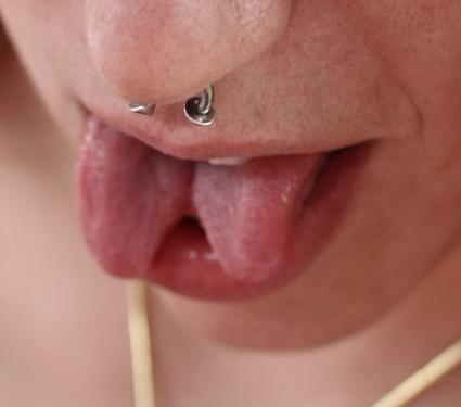 Tongue splitting (cropped version of File:Tongue-split.jpg)